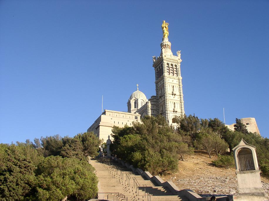 Marseille (France). This vue shows the church of Notre Dame de la Garde.